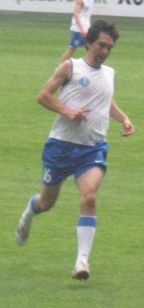 Andriy Rusol during open training of FC Dnipro Dnipropetrovsk on Dnipro-Arena